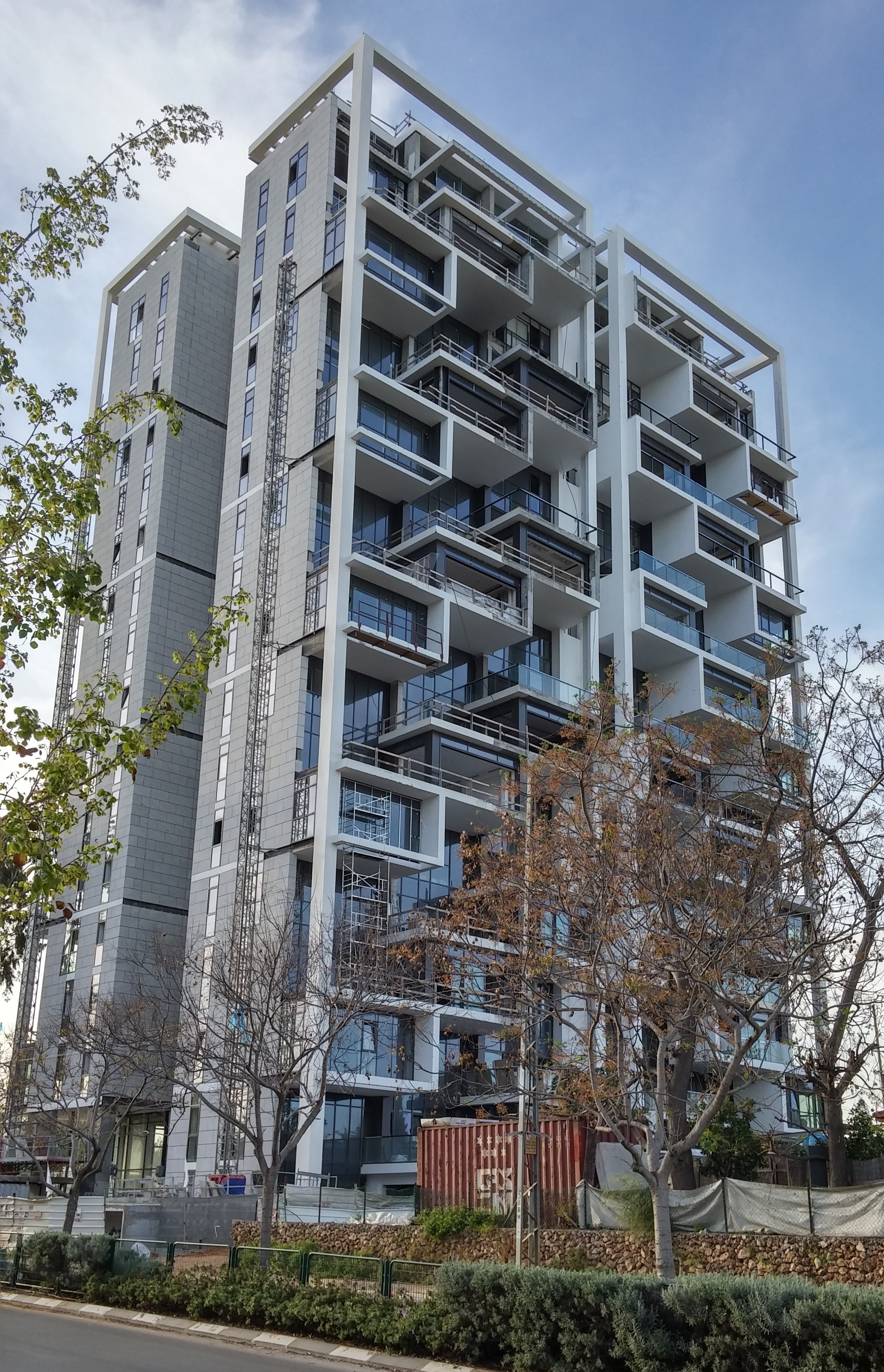 OAK building, Ramat Hasharon